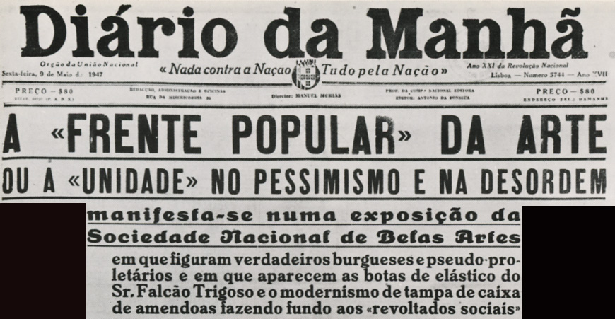 Diário da Manhã, 1947, May 9